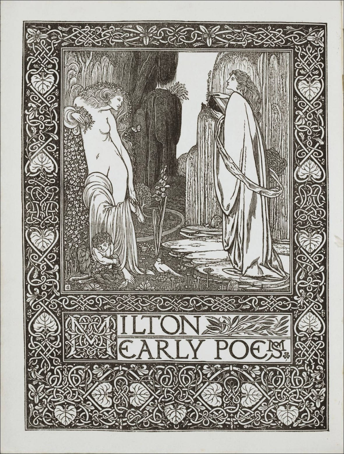 The intricate border and frontispiece of Milton’s Early poems (Vale Press, 1896) were designed by Charles Ricketts, with his partner, Charles Shannon assisting in the cutting. Charles Ricketts, in particular, had a strong influence on modern book design. The Vale Press active until 1904 was founded by Ricketts in 1896, with the aim of printing the English classics in beautiful form. Early poems is the first book printed at the Vale Press and it shows the influence of William Morris and the Kelmscott Press.